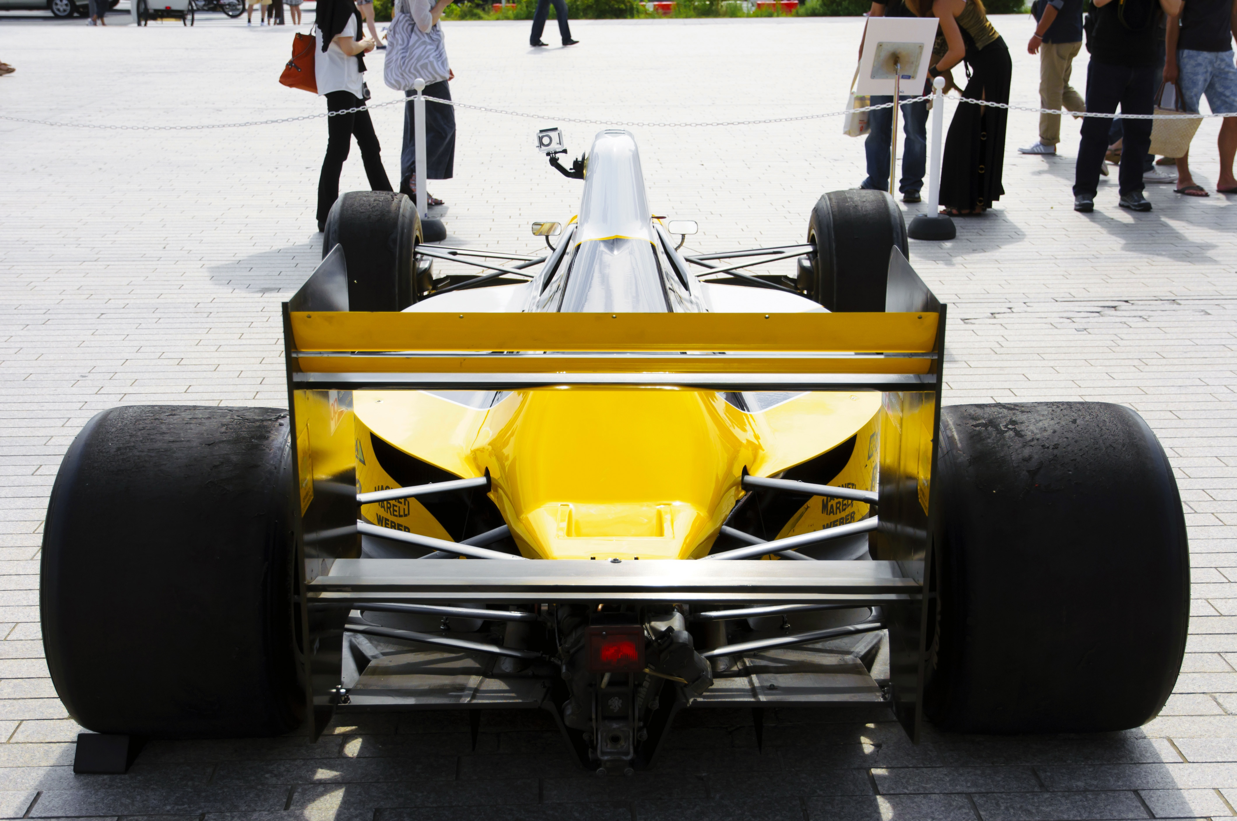 Minardi M190 [1990]